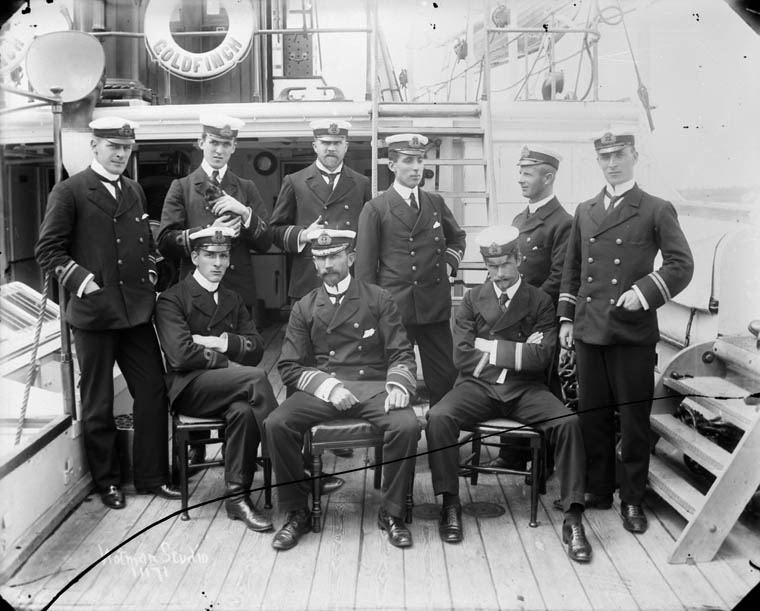 Officers of H.M.S. "Goldfinch" at Halifax, Nova Scotia, Canada.